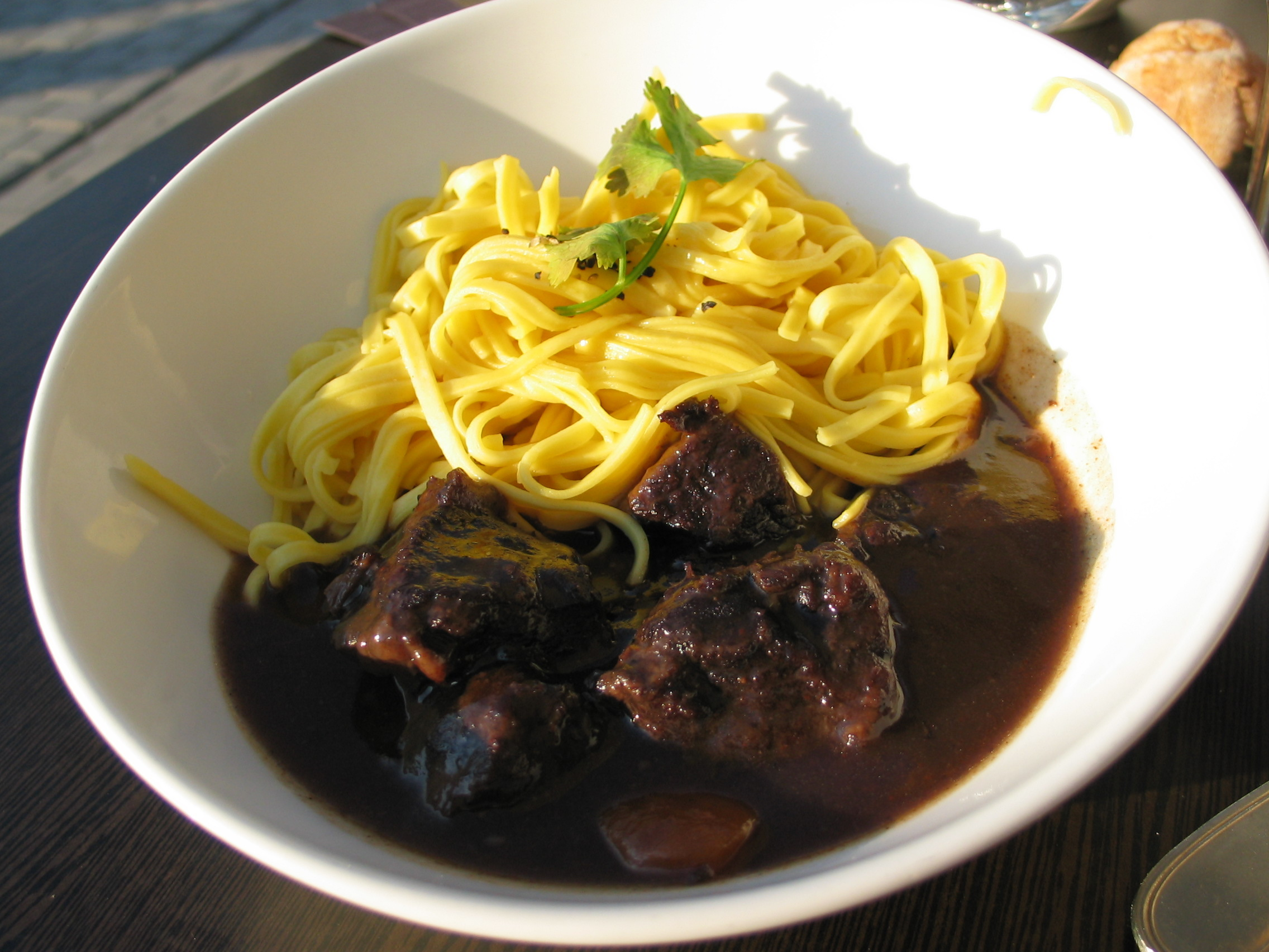 Beef bourguignon made with ox cheek, served with pasta.